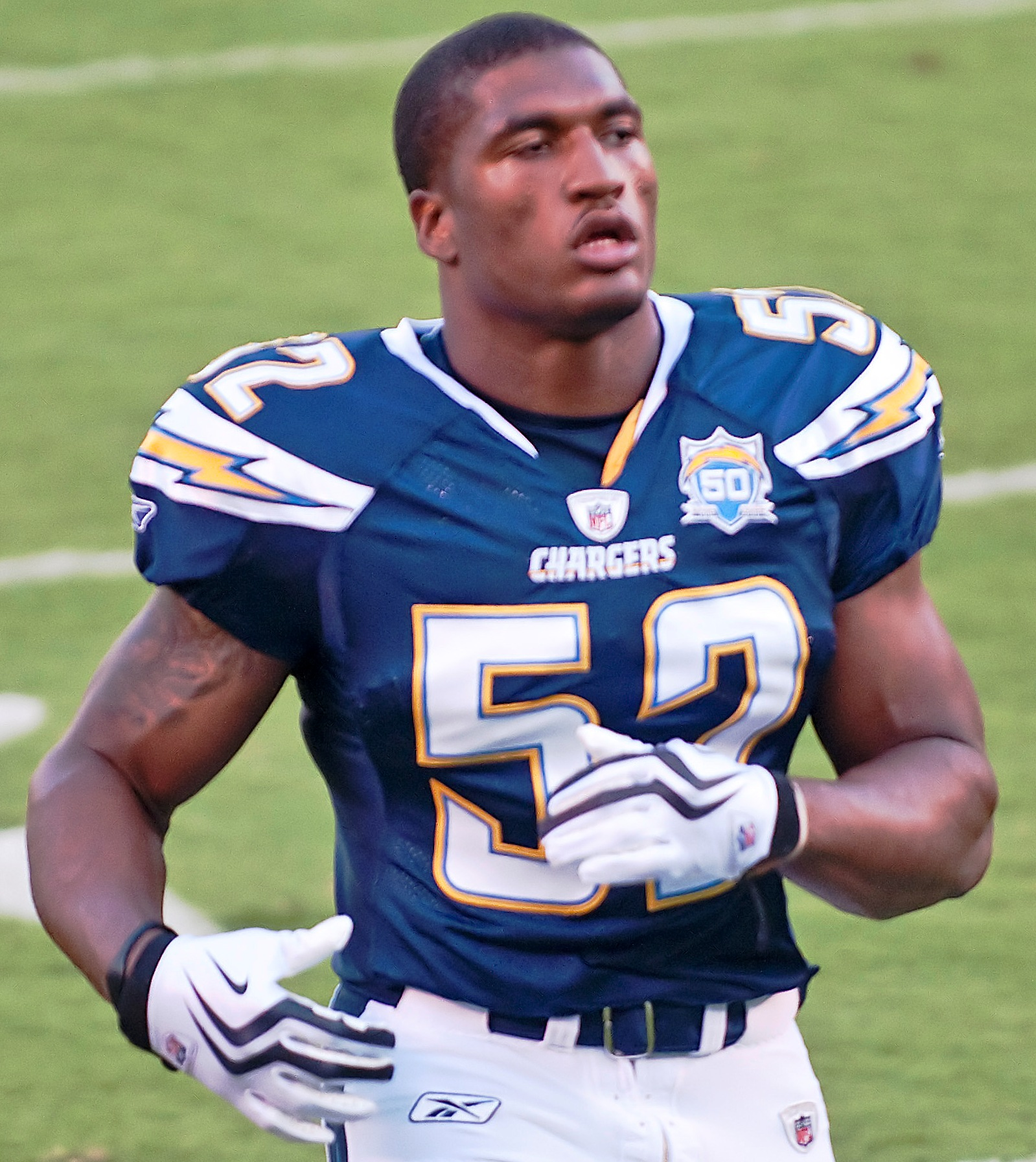 Larry English during the San Diego Chargers vs. San Francisco 49ers preseason game on September 4, 2009.